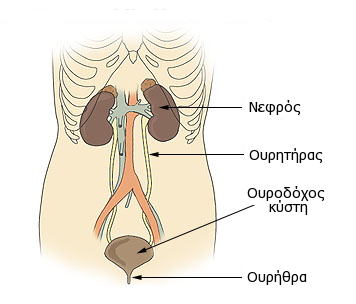 Greek translation of Image:Illu urinary system.jpg